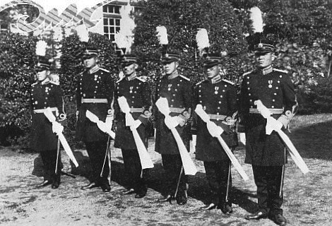 Imperial Japanese Army War College students